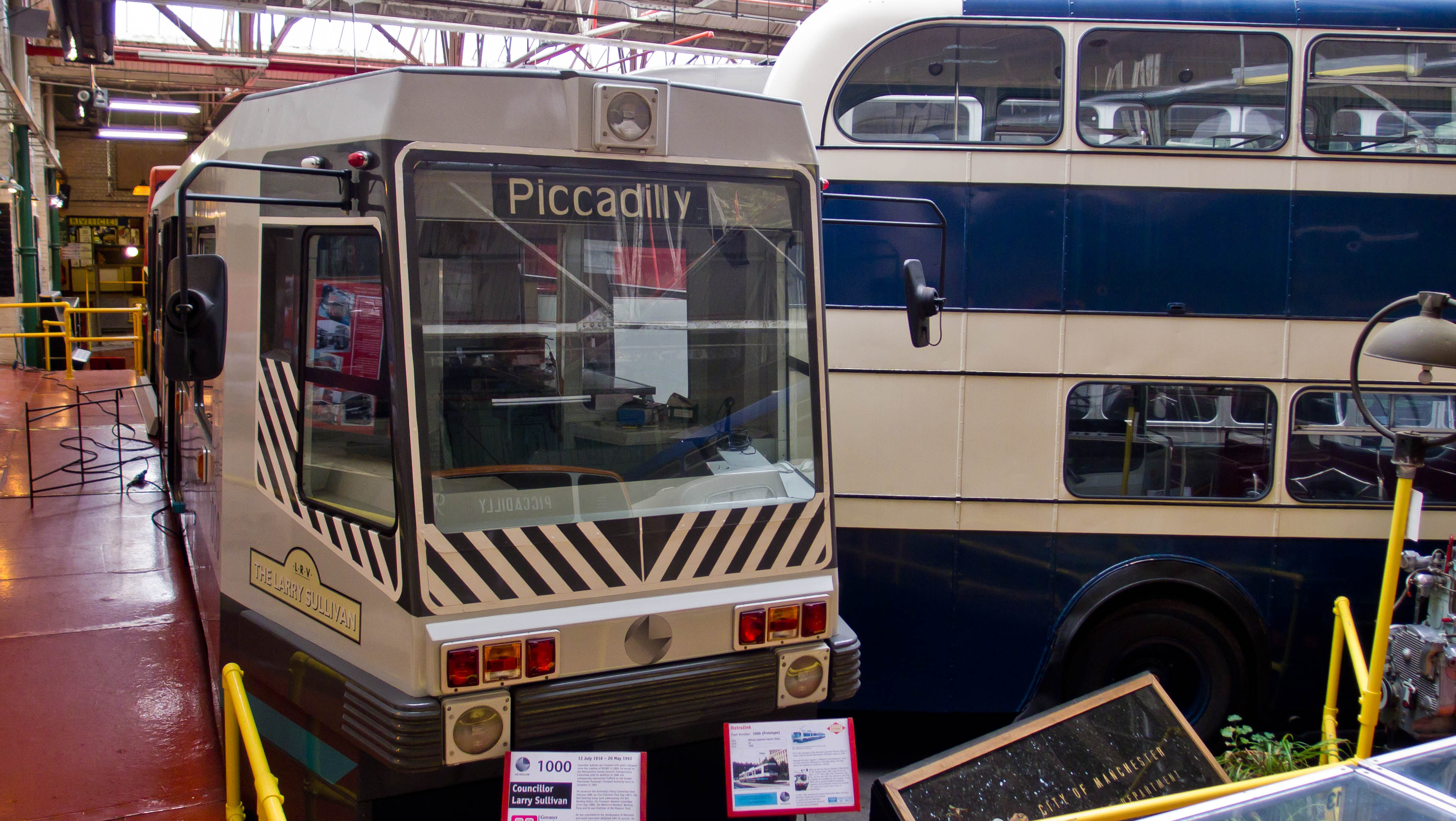 Prototype Metrolink tram at Manchester Museum of Transport